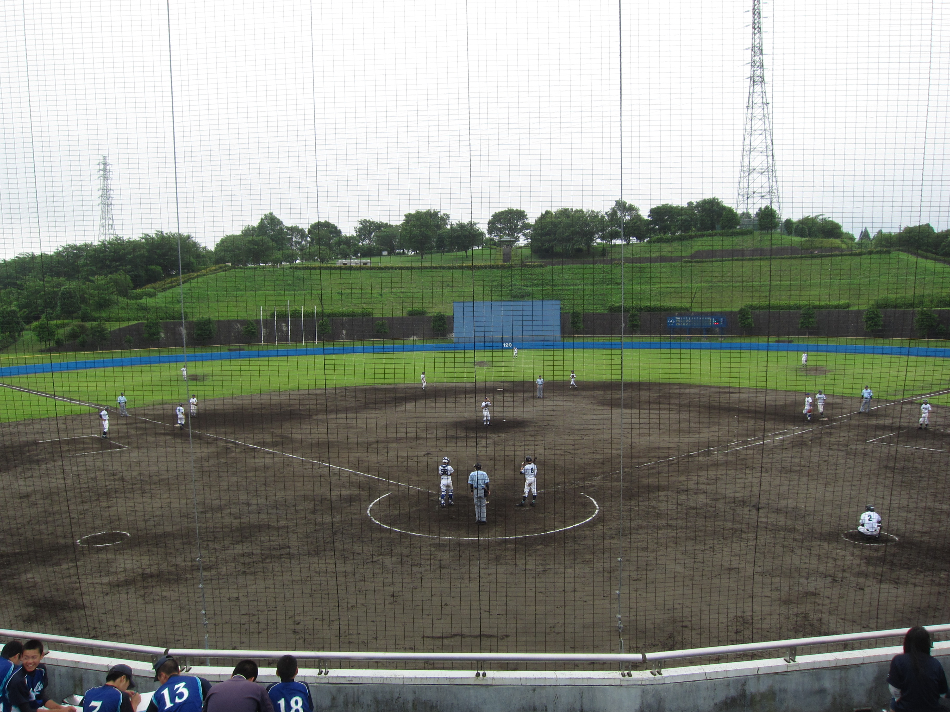 Minamiashigara Baseball Ground